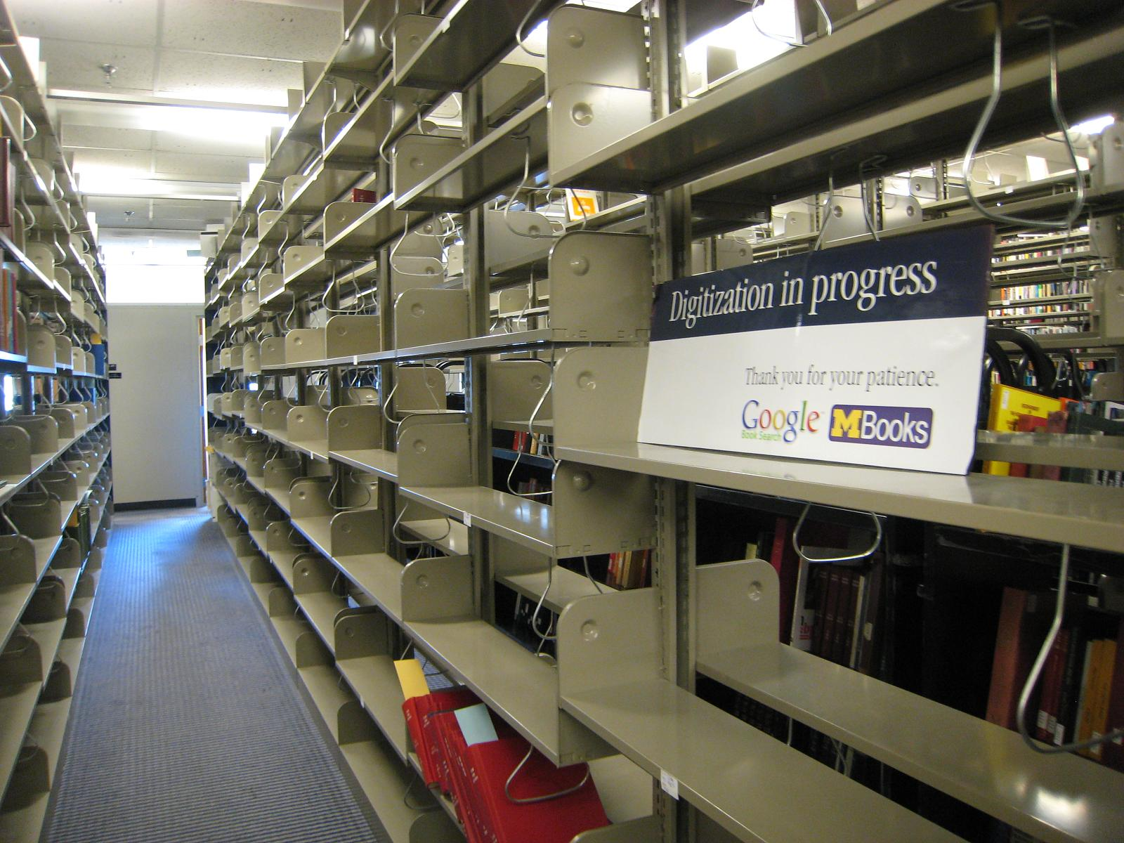 Empty stacks in Hatcher Graduate Library (University of Michigan Library), for bookscanning / google digitization. Google Books. MBooks.